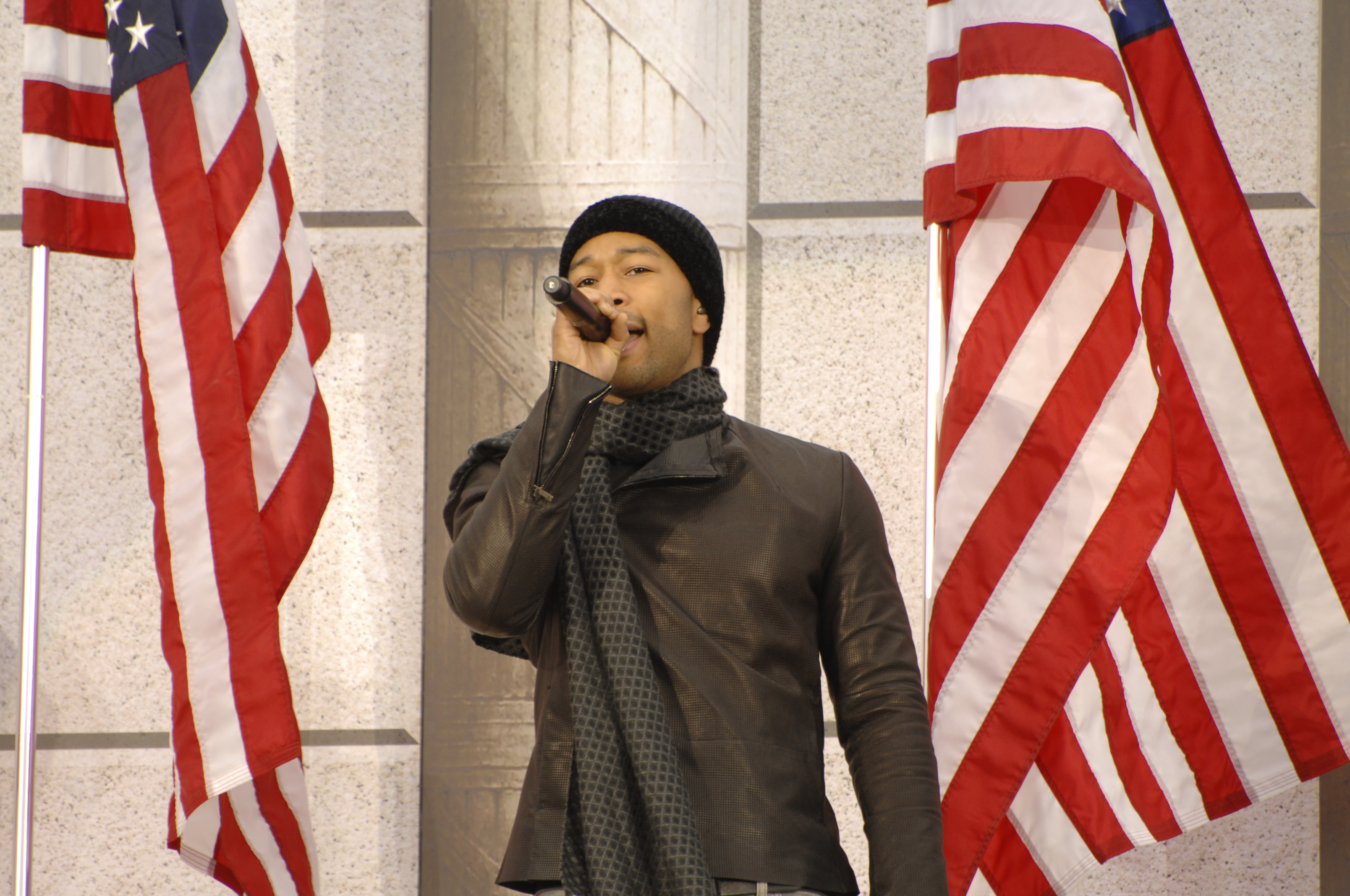 John Legend at the Lincoln Memorial on the National Mall in Washington, D.C., Jan. 18, 2009, during the inaugural opening ceremonies.